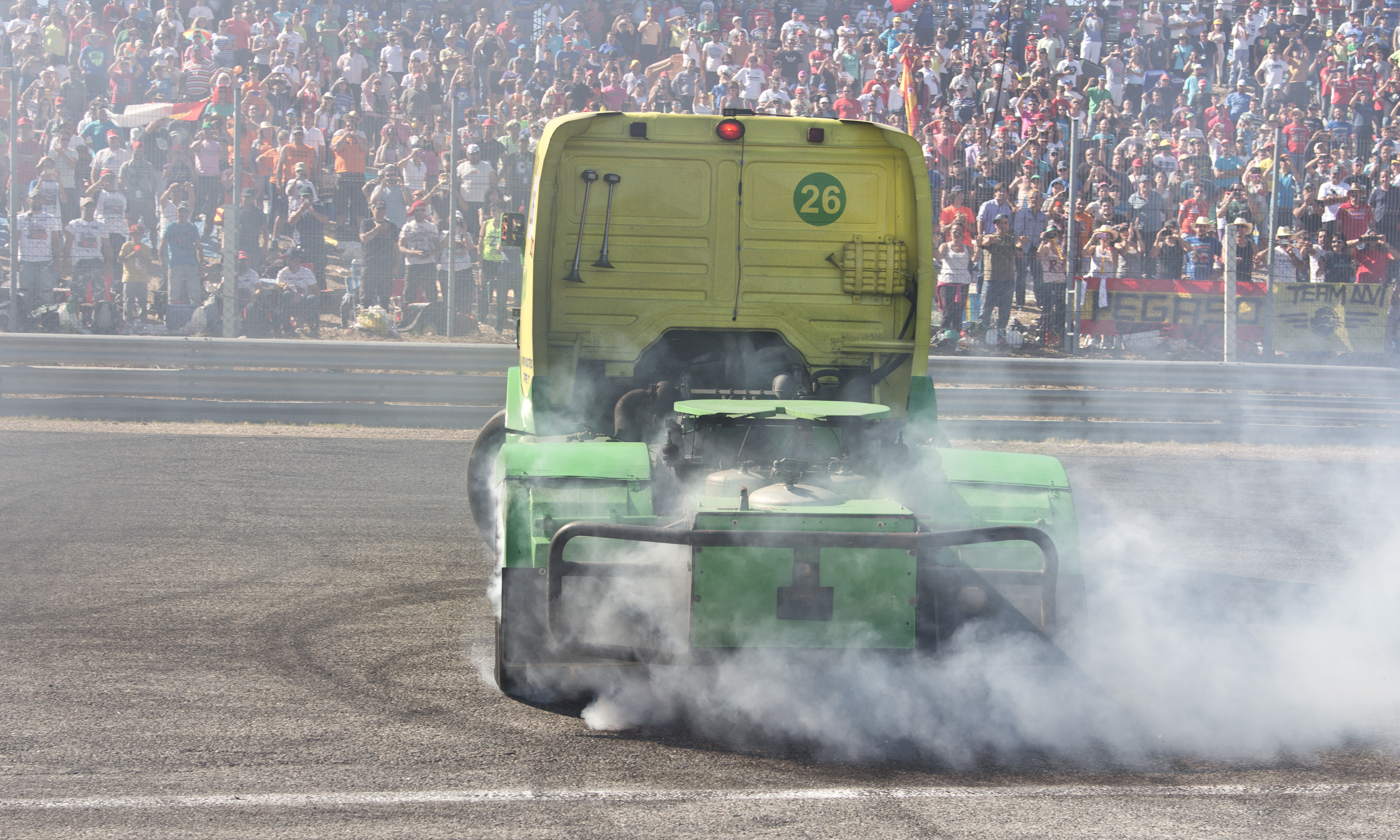 Truck pilot Orlando Rodríguez burning out his tires at the Spain Truck GP 2013.